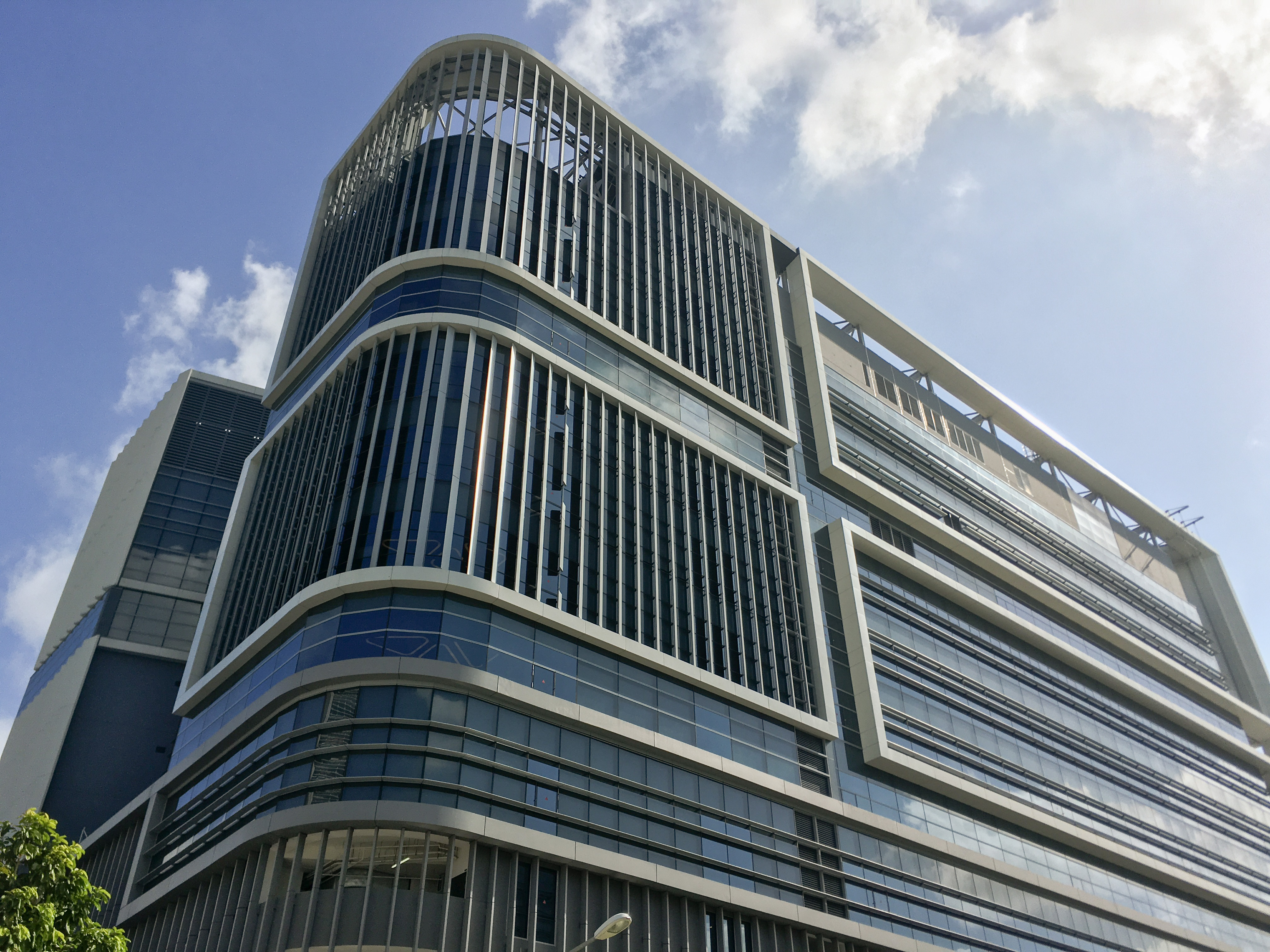 The National University Centre for Oral Health, a facility that serves simultaneously as a public dental facility and as a teaching building for the Faculty of Dentistry, National University of Singapore.